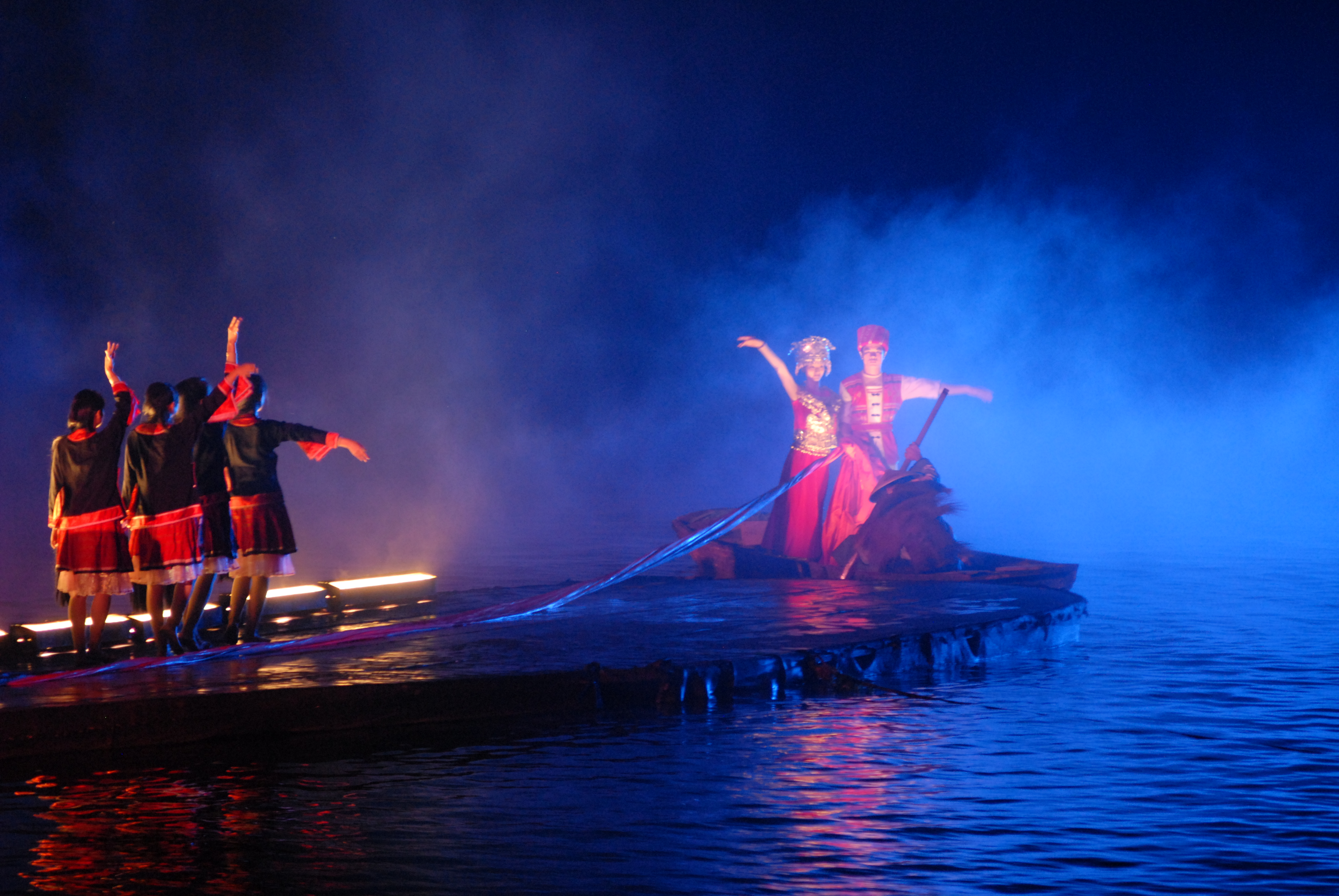 印象刘三姐(Impression_Liu_Sanjie)